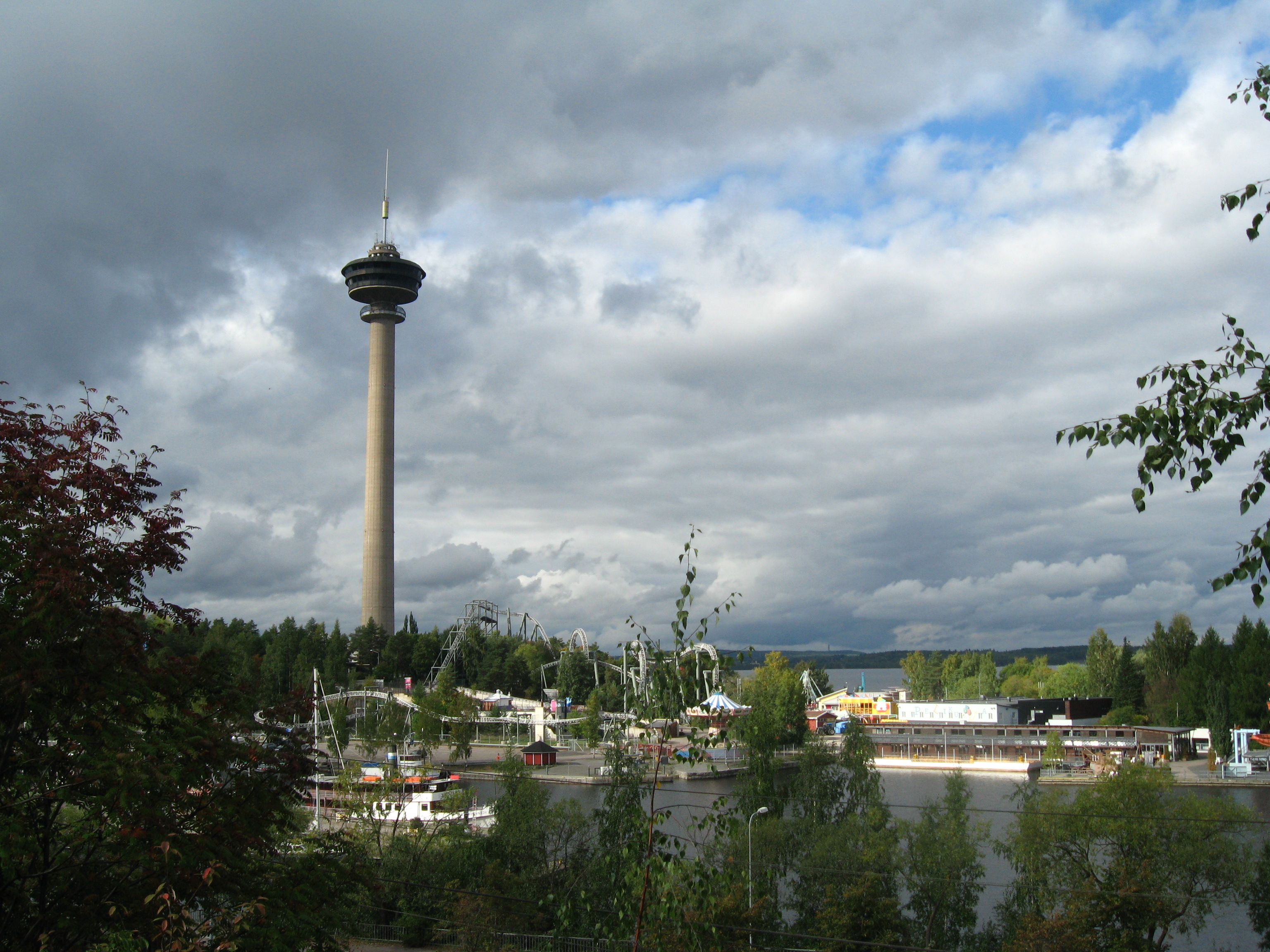 Näsinneula.